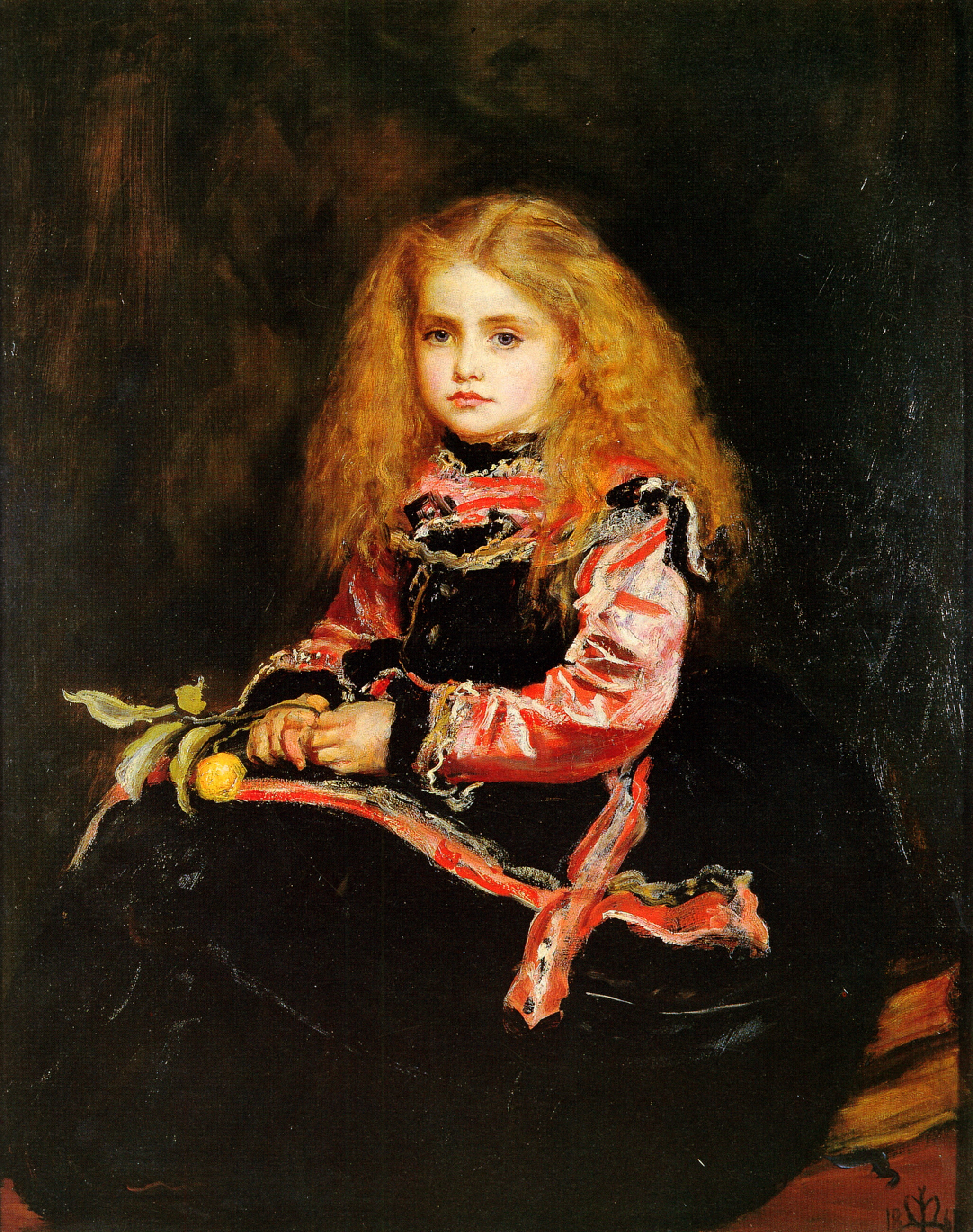 A Souvenir of Velazquez